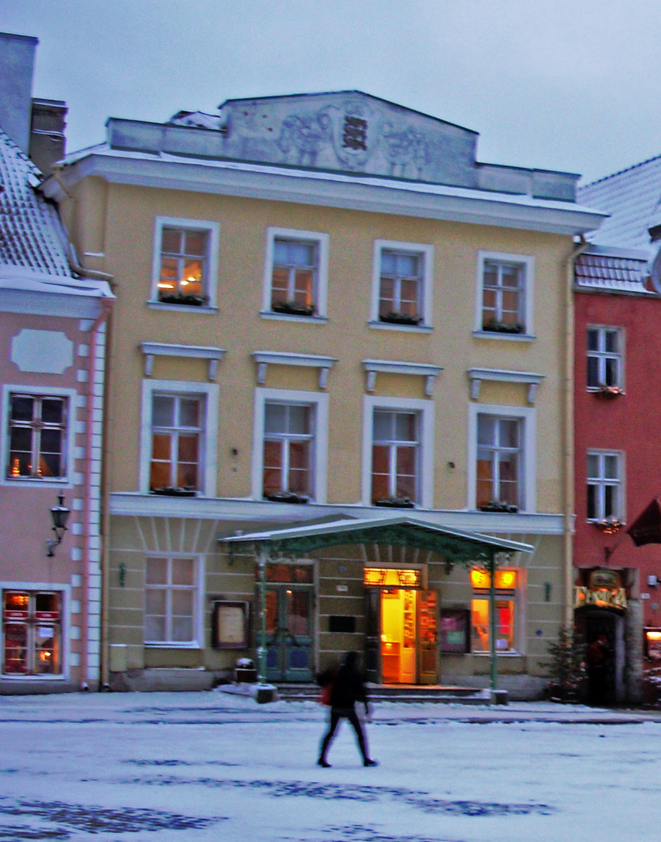 House in 14 Town Hall Square in Tallinn, Estonia